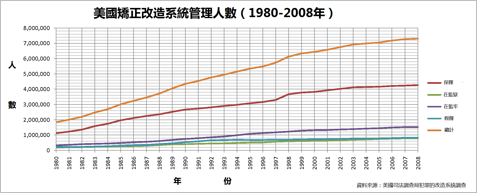 A graph that shows the Correctional populations in the United States from 1980 to 2008. It shows probation, jail, prison, and parole correlations. Traditional Chinese version